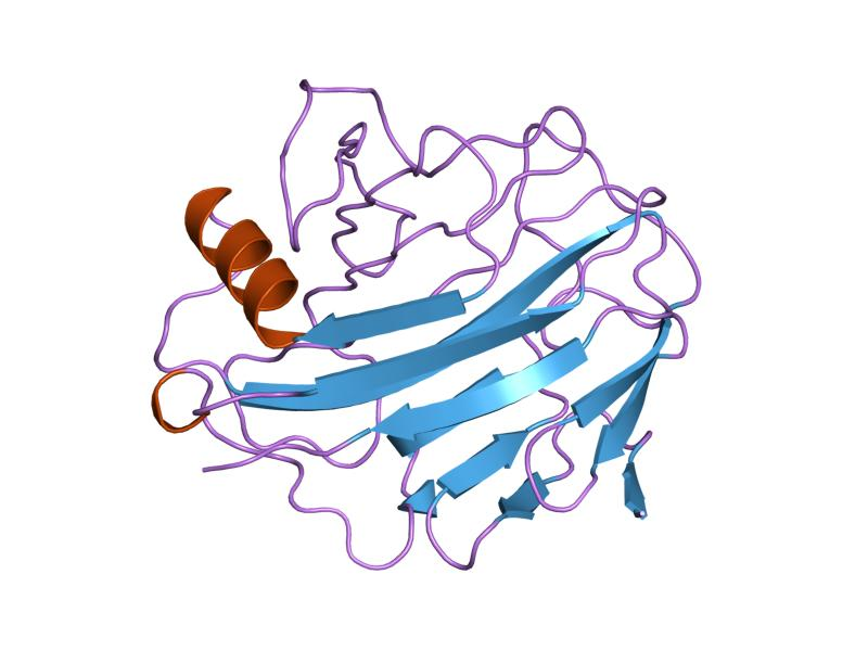 Cartoon representation of the molecular structure of protein registered with 1oa4 code.